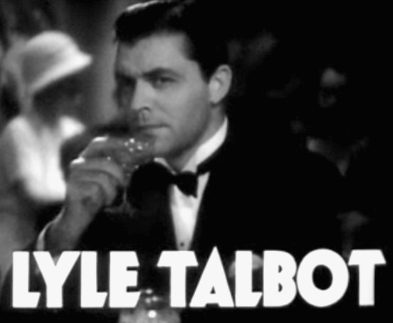 Cropped screenshot of Lyle Talbot from the trailer for the film Havana Widows